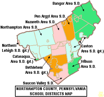 Map of Northampton County, Pennsylvania, United States Public School Districts